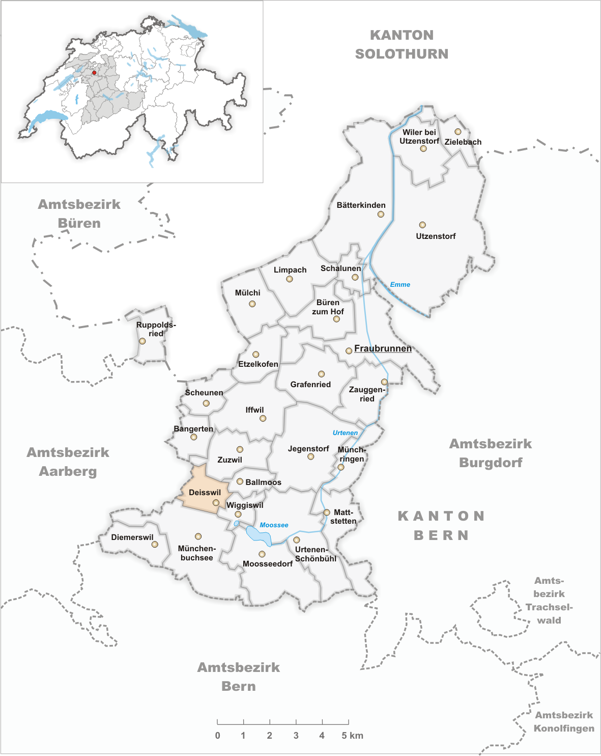 Municipality Deisswil